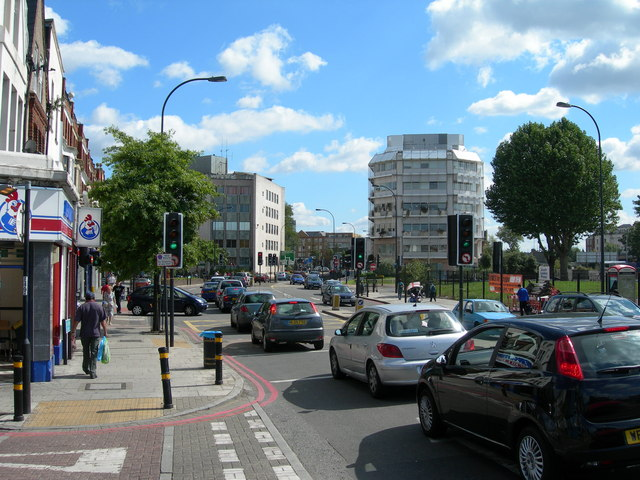 Catford Road, Catford. This is the A205, South Circular Road, approaching the junction of the A21.